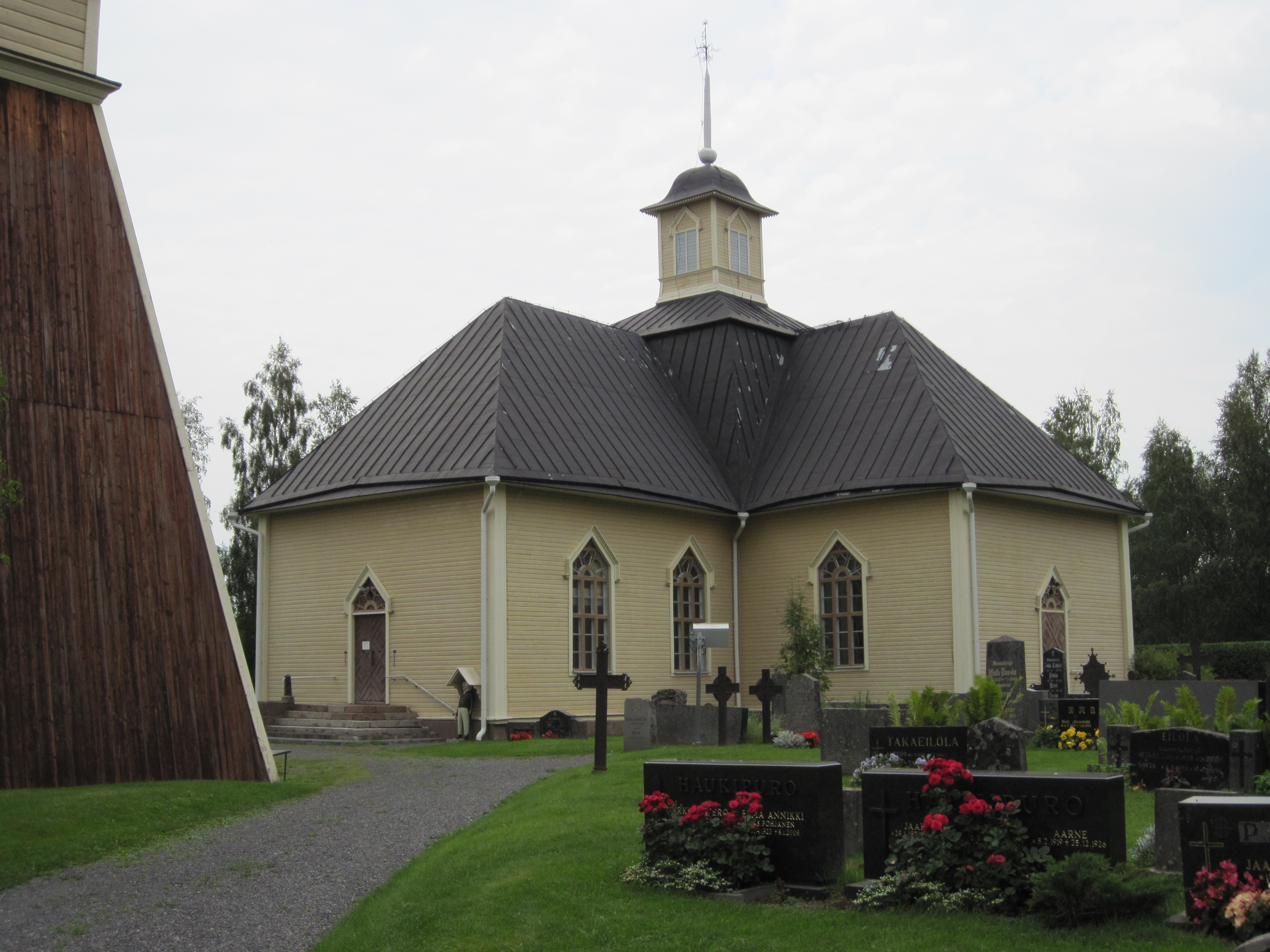 Merijärvi church at Merijärvi, Finland